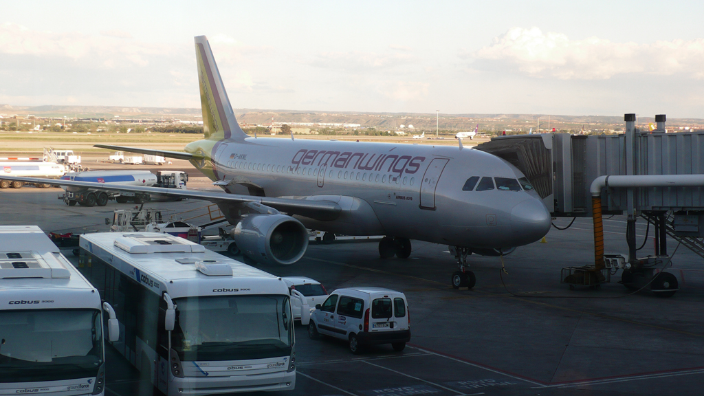 Germanwings (D-AKNL) Airbus A-319 in Madrid-Barajas Airport (Spain)